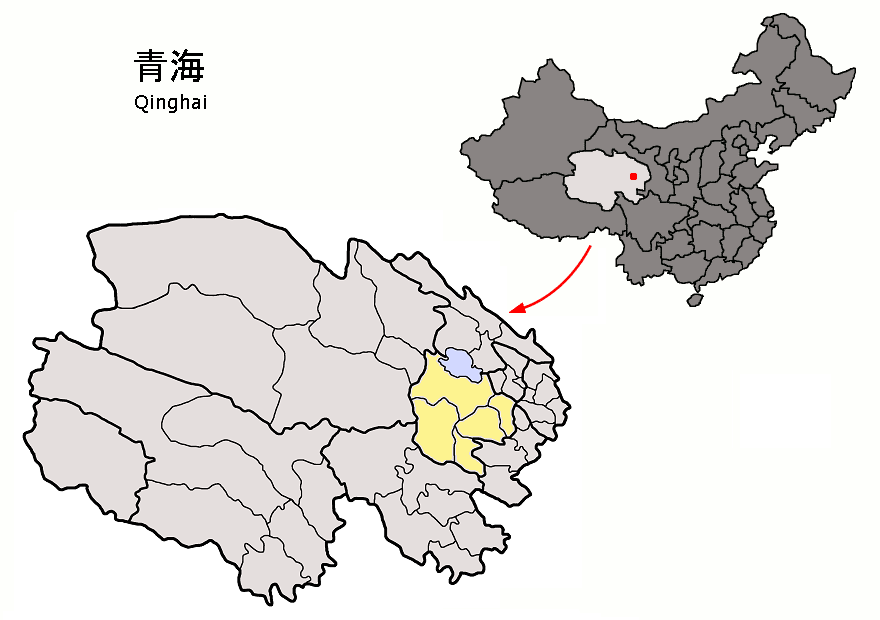 Location of Hainan Prefecture (yellow) within Qinghai province of China Map drawn in september 2007 using various sources, mainly : Qinghai province administrative regions GIS data: 1:1M, County level, 1990 Qinghai Counties map from "Plateau Perspectives" (the limits of some county-level subdivisions may not be accurate)